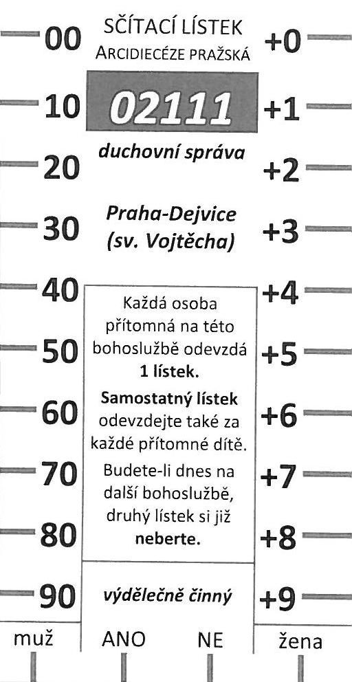 counting ticket - counting of participants of christian masses 2014. It is only a formulary, similar to ballot; a participant of mass designates indications of age, sex and economic activity (yes/no) by tearing on corresponding place of a counting ticket.